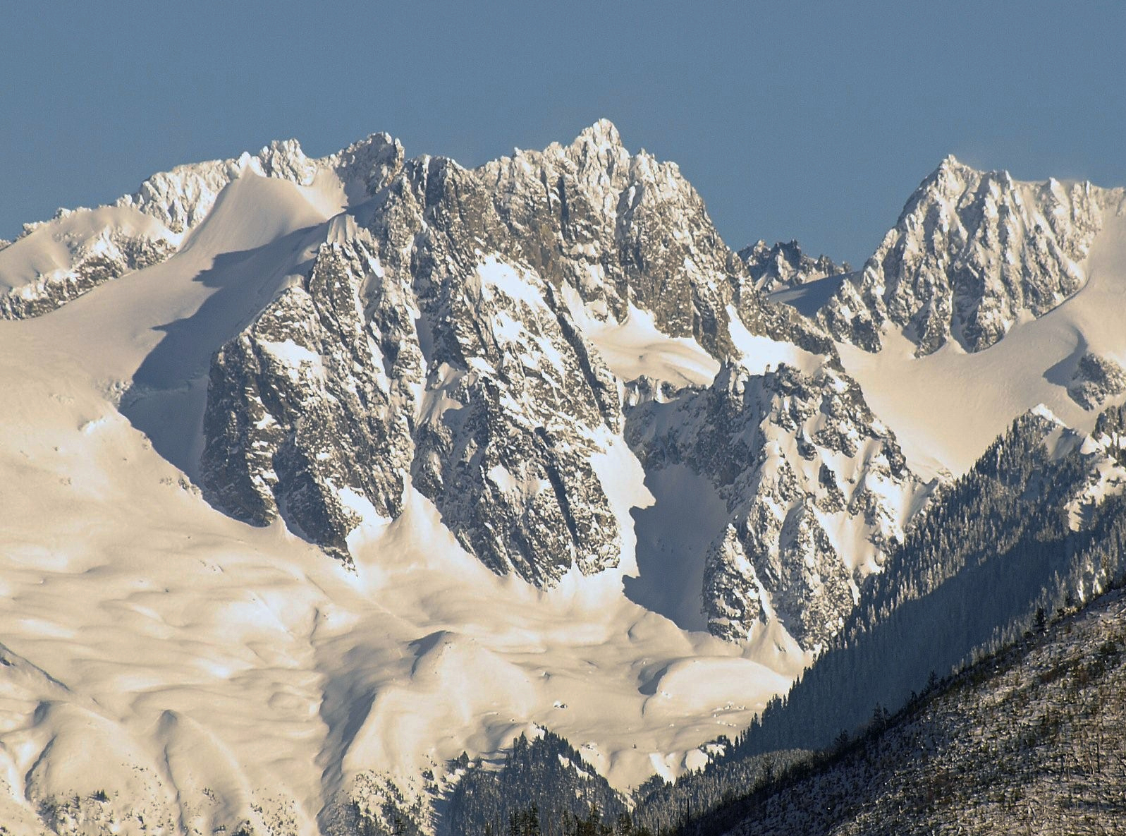 Dorado Needle in white, North Cascades